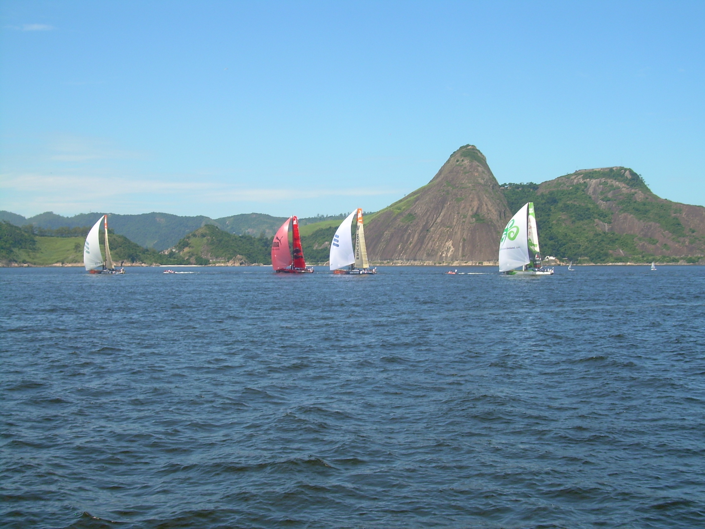 In- port Río de Janeiro race during the 2008 - 2009 Volvo Ocean Race.